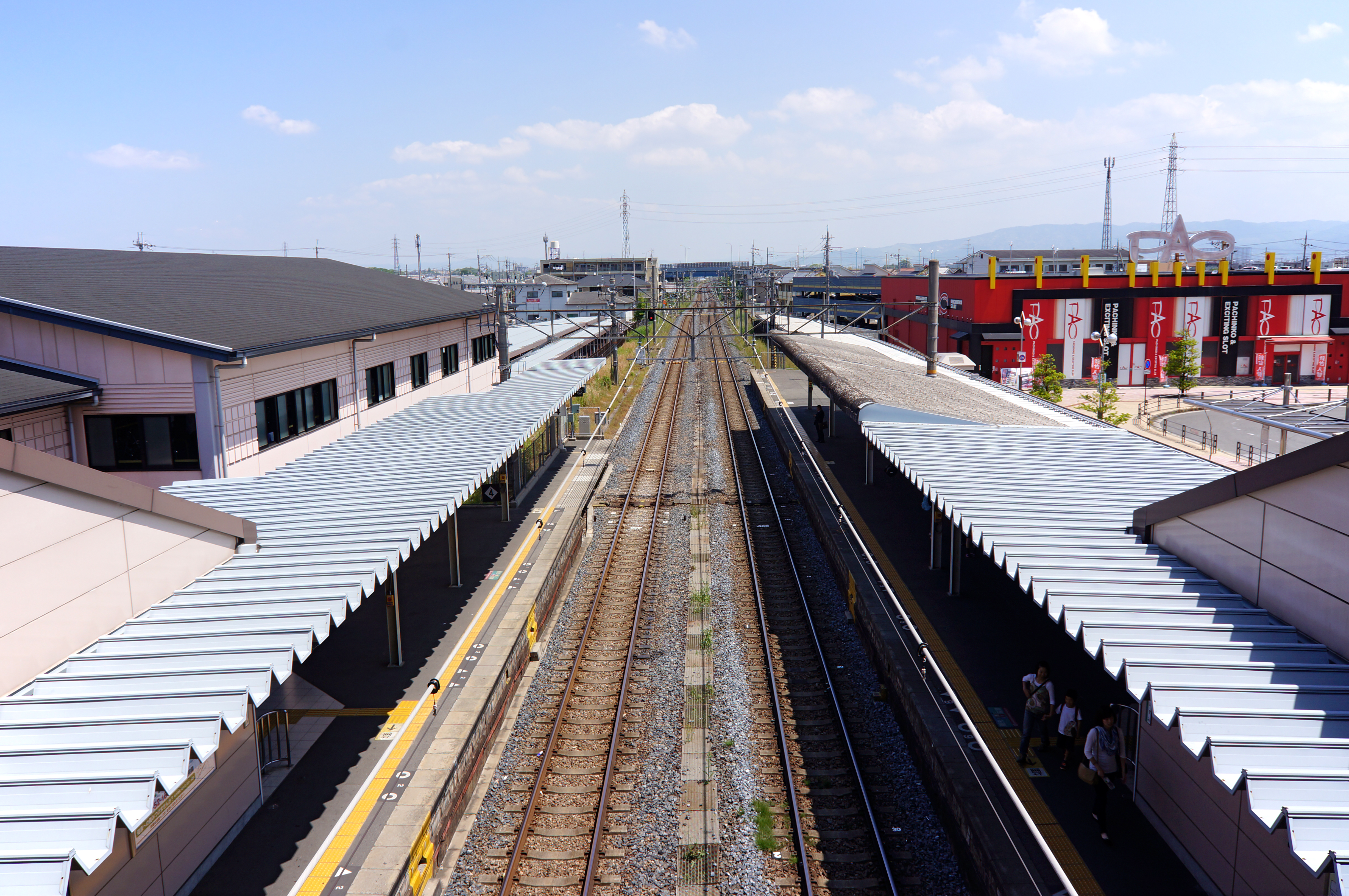 Yamato-Koizumi Station in Yamatokoriyama, Nara prefecture, Japan.